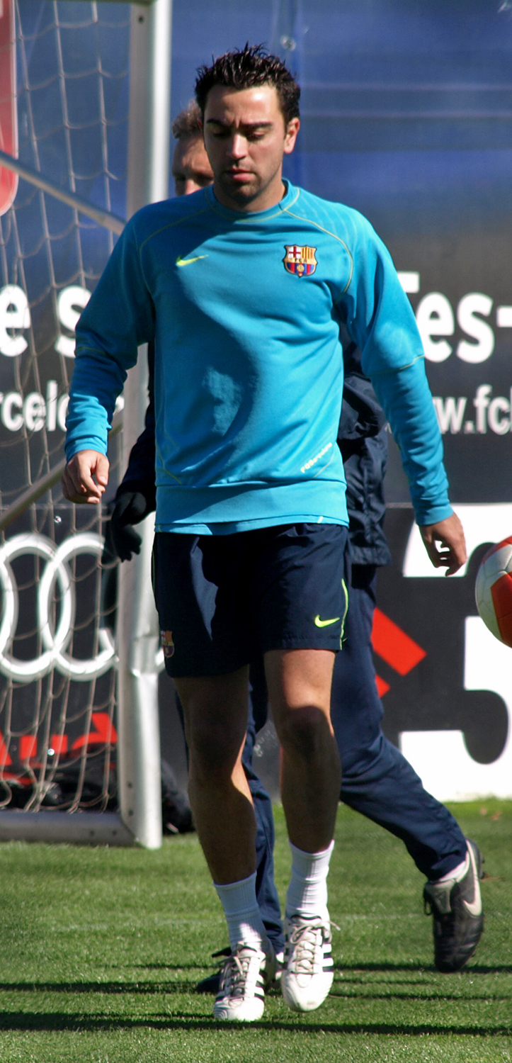 Xavier Hernández (born January 25, 1980, Terrassa, Catalonia), normally known as Xavi is a Spanish footballer who plays in central midfield for FC Barcelona